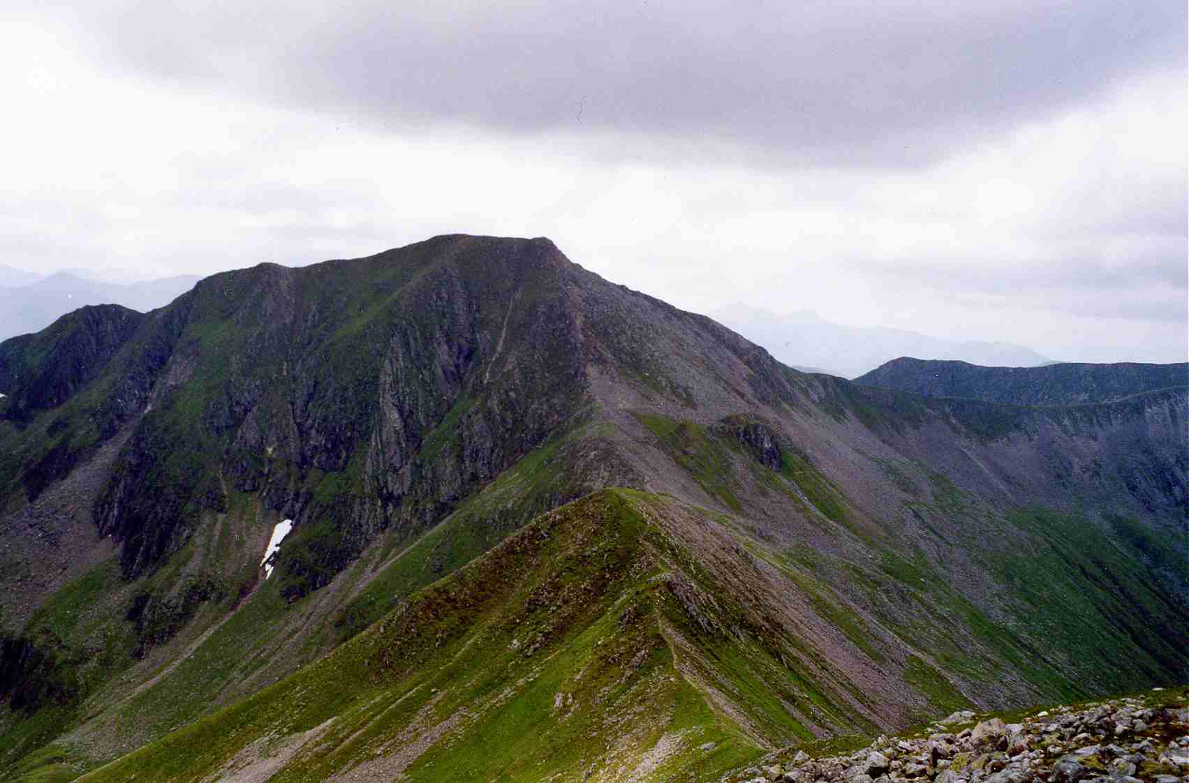 Personal photograph taken by Mick Knapton